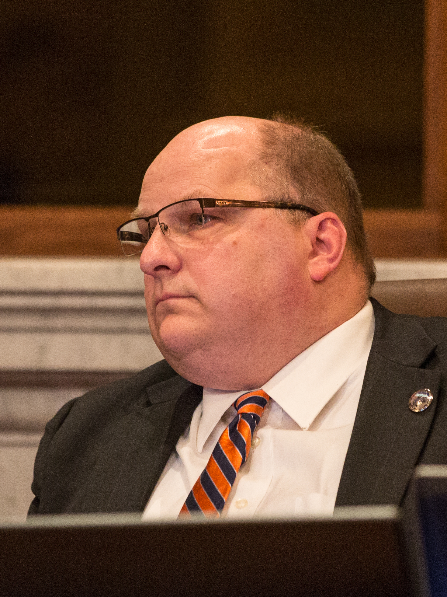 December 9, 2015 budget hearing at Minneapolis City Hall